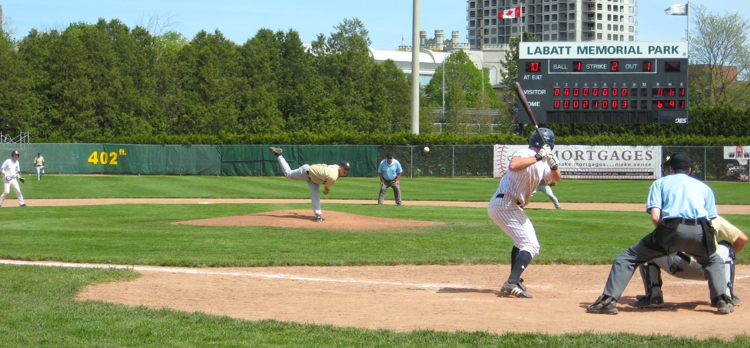 baseball game in Labatt Park, May 2008, illustrates continuous use claim